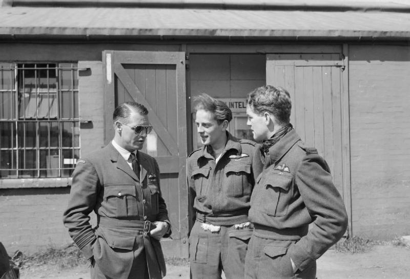 Photograph showing Group Captain A G Malan, Station Commander at Biggin Hill, Kent, (left), talks to Squadron Leader E J Charles, Officer Commanding No. 611 Squadron RAF (middle), and Wing Commander A C Deere, leader of the Biggin Hill Wing (right).